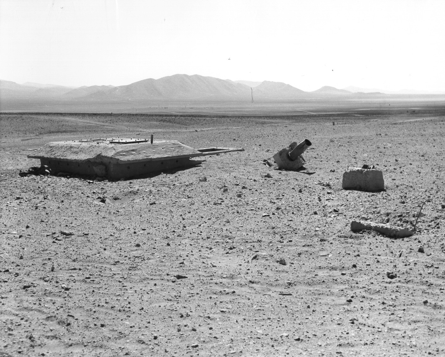 PLUMBBOB - 1957 - NEVADA TEST SITE -- Exhaust and air-intake stacks for ventilators of the French rectangular shelter were toppled by the force of the SMOKY nuclear detonation of August 31, 1957. The shelter was designed so postblast ventilation would enter through the low structure, which remained intact. Other than some chipping and cracking of exterior features, the shelter remained operable after the blast.